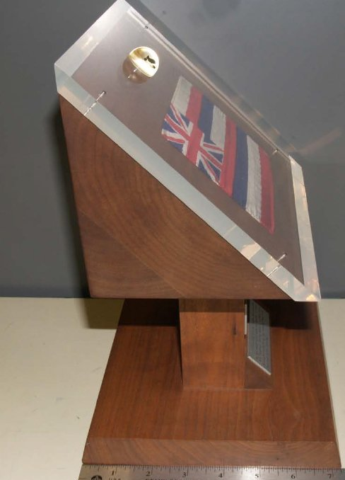 Hawaii Apollo 11 display with 7 inch ruler measurement